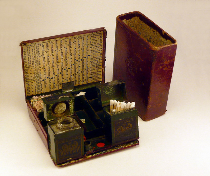 Travelling inkwell English compendium 1851